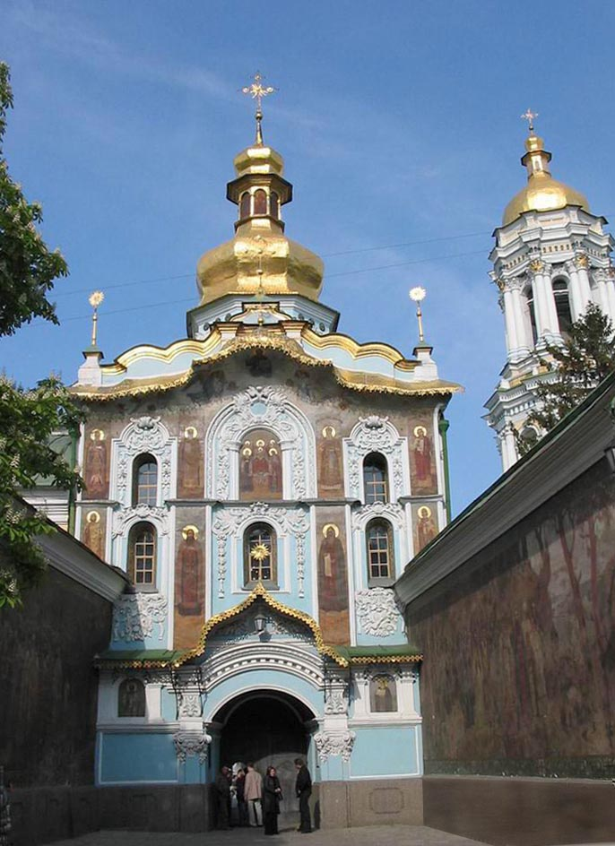 The Gate Church of the Trinity of the Kiev Pechersk Lavra in Kiev, Ukraine.